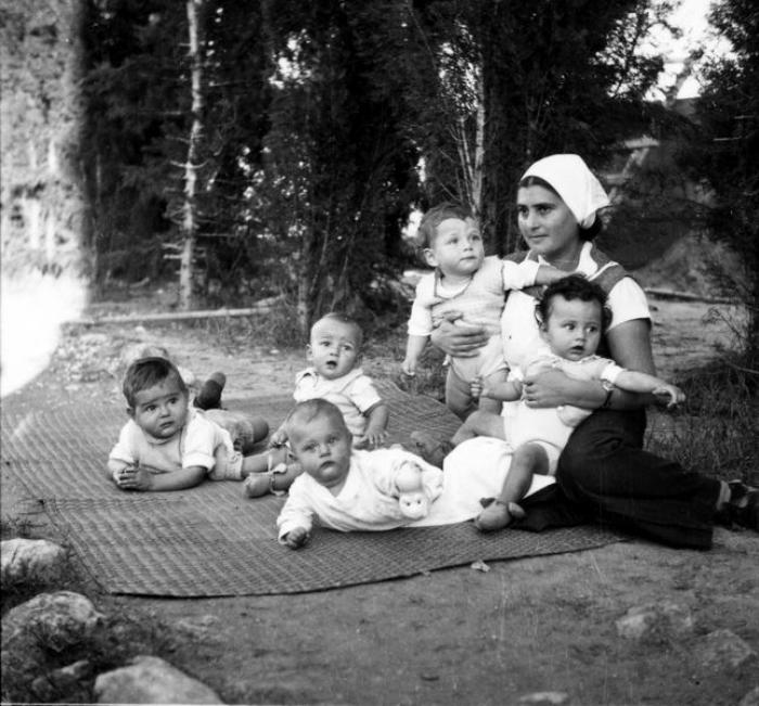 Ein Hahoresh, Education in Israel